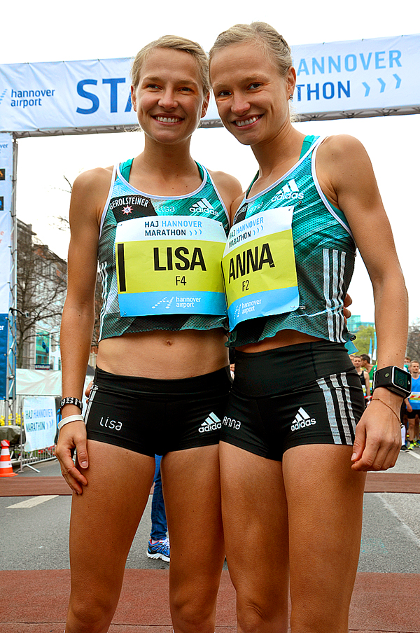 Photo at the HAJ Hannover Marothon on 10. April 2016 of Lisa und Anna Hahner